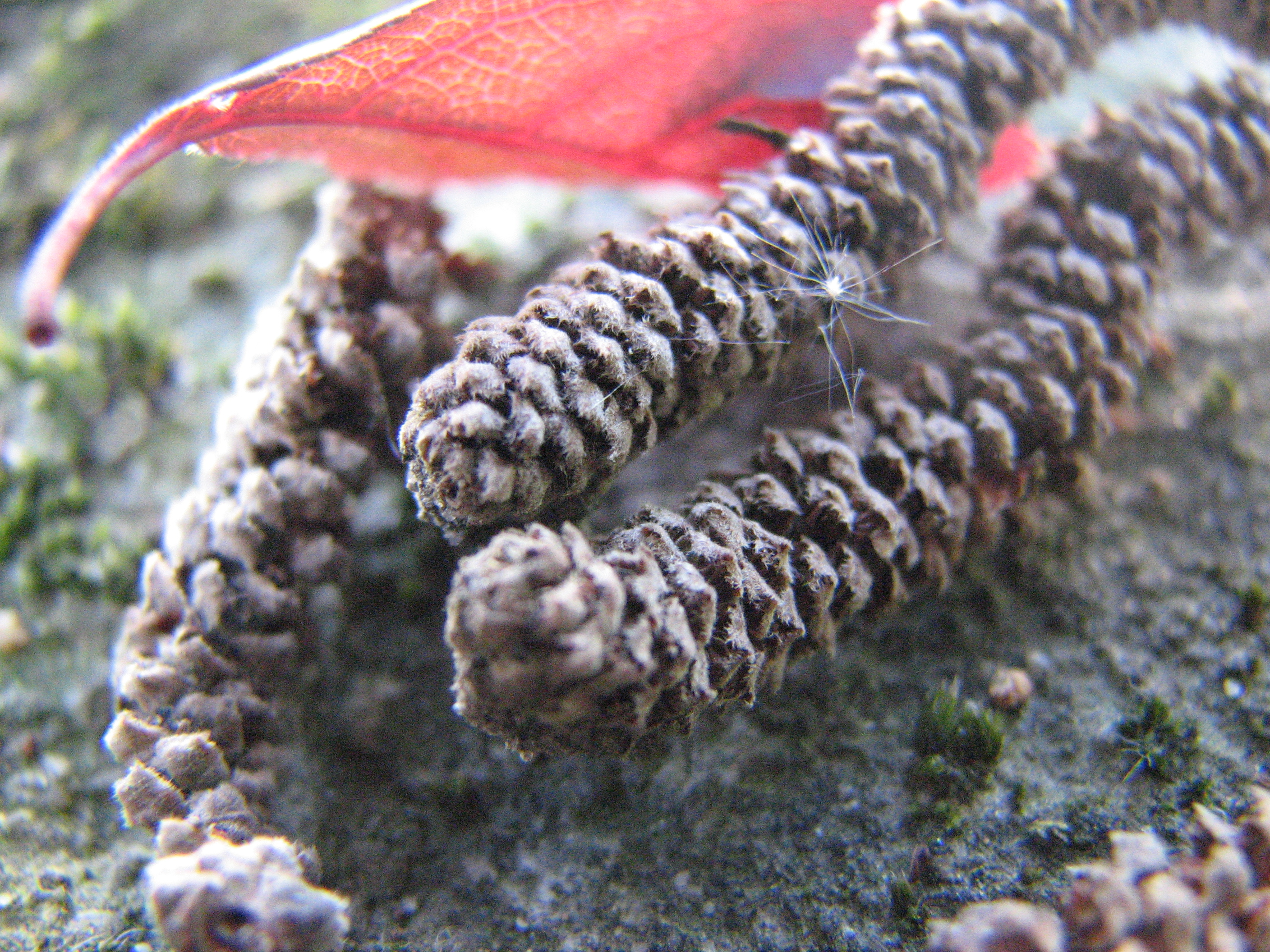 Description: Haselnusssamen Source: made by myself Made by: Christoph Neumüller / topfklao